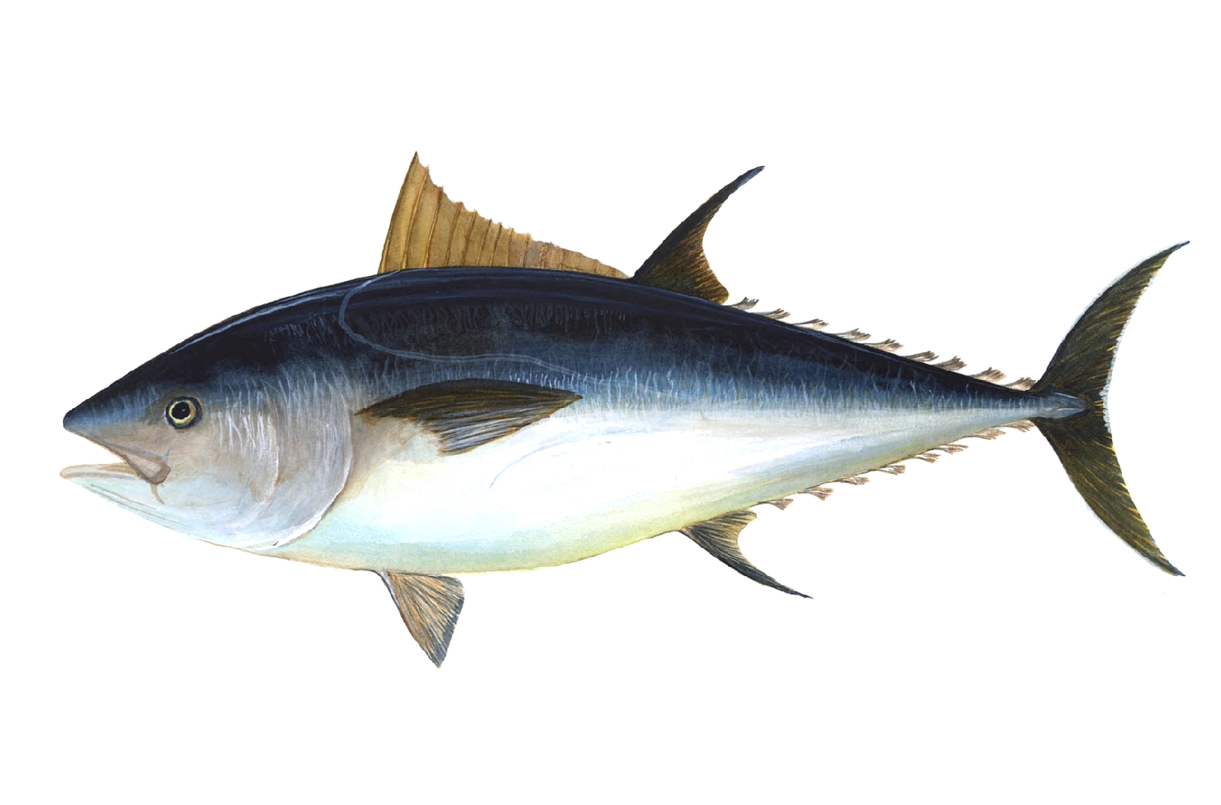 Bluefin Tuna (Thunnus thynnus) from wiki @22:11, 18. Jan 2004 by User:Anathema